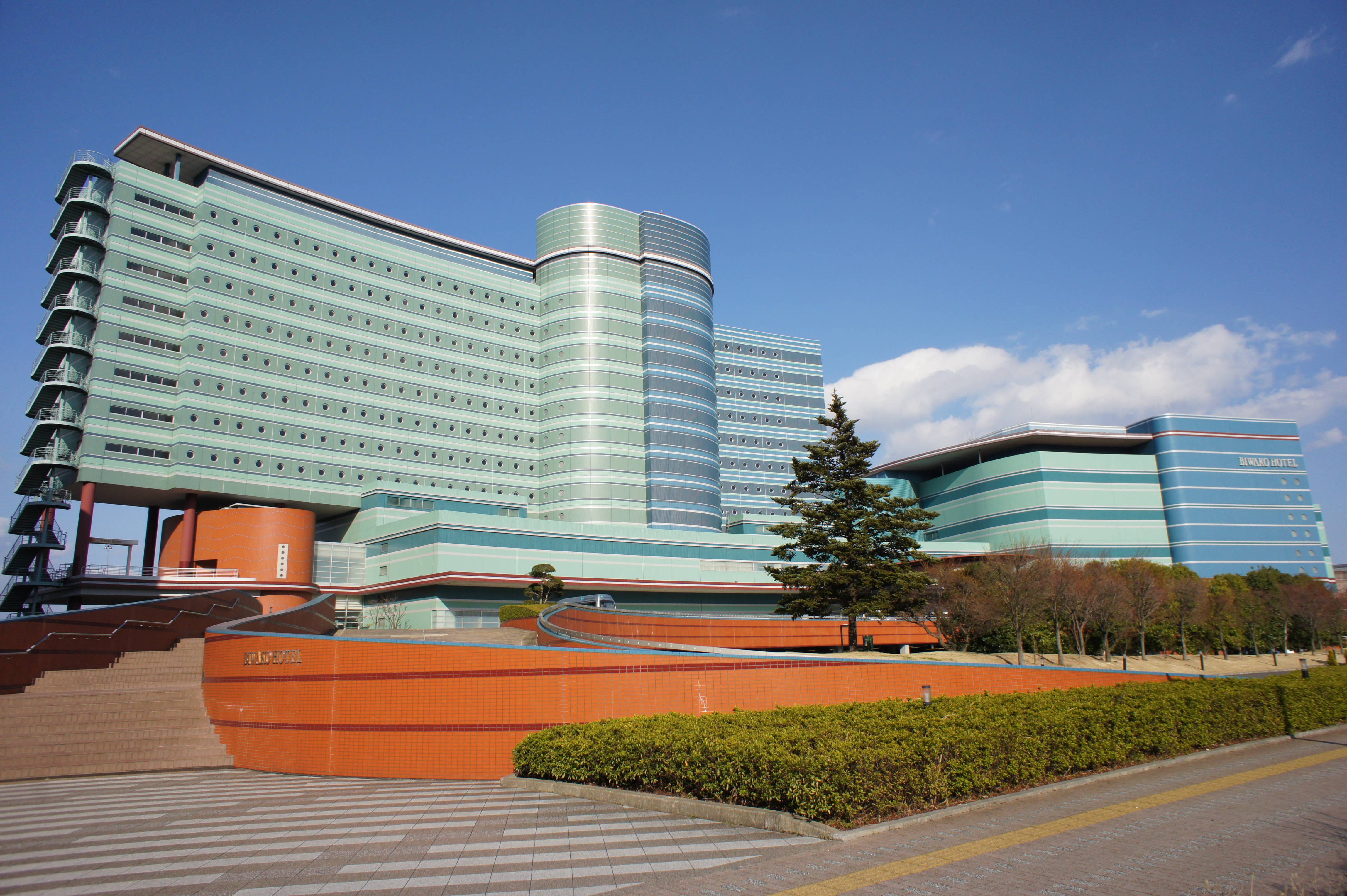 BIWAKO HOTEL, 2-40 Hamamachi Otsu-City Shiga JAPAN.